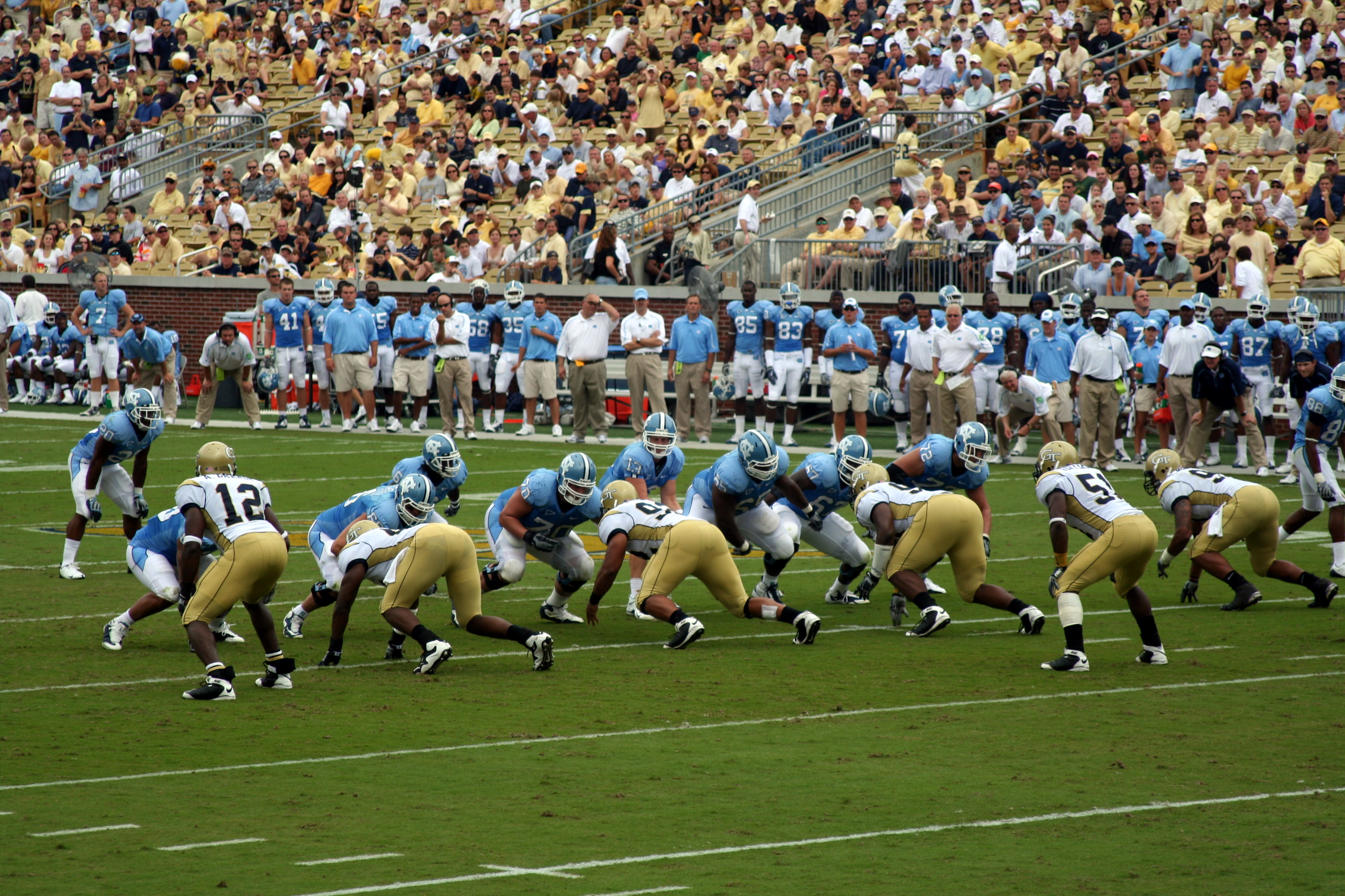 Georgia Tech Football game against the University of North Carolina in the 2009 Season at Bobby Dodd Stadium